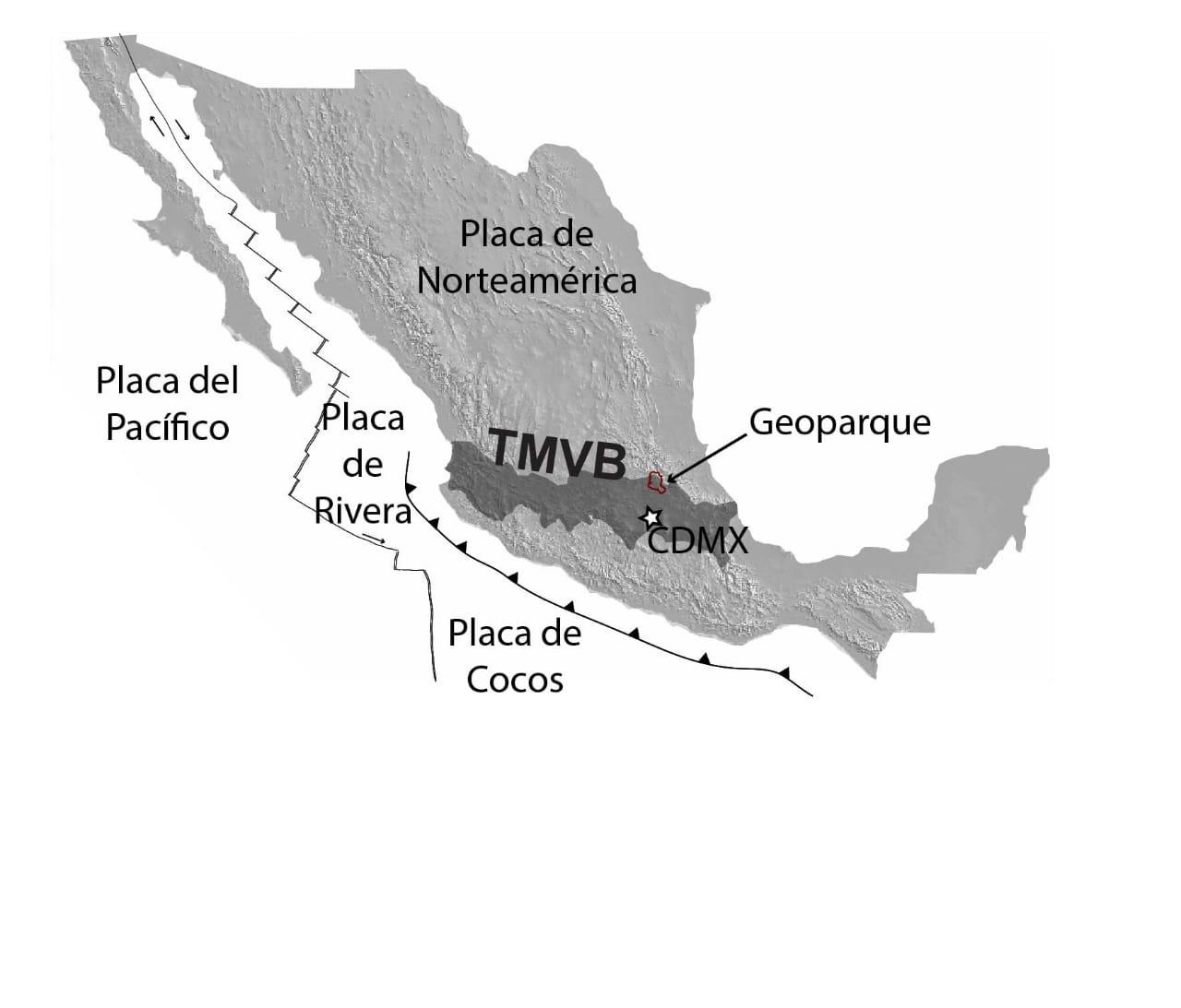 by Miguel Á. Cruz Pérez